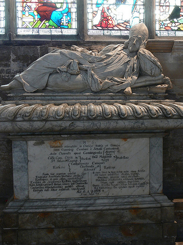 Monument to Bishop Peter Gunning (d1684). Ely Cathedral, Cambridgeshire. Tomb chest with semi reclining figure resting on one arm.